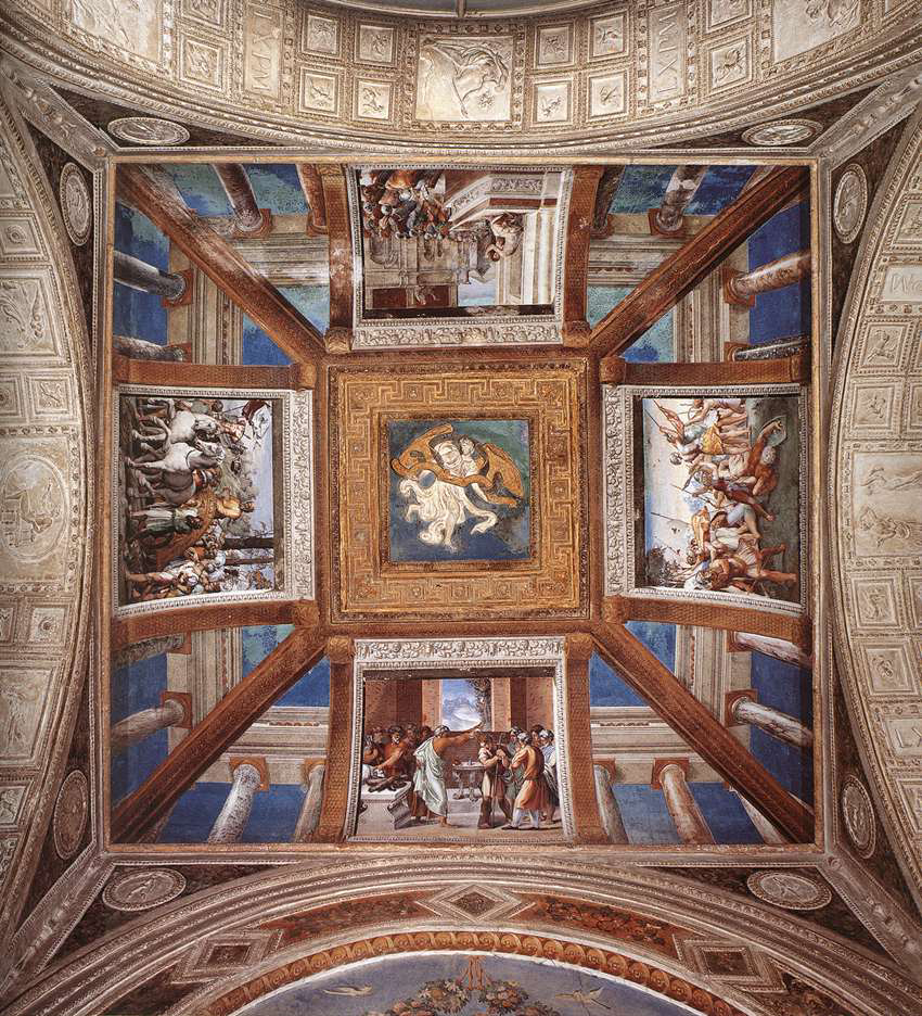 Scenes from the Life of David Raphael (1483–1520) Alternative namesRaffaello Santi, Raffaello de Urbino, Rafael Sanzio de Urbino, RaffaelDescriptionItalian painter and architectDate of birth/death6 April 14836 April 1520Location of birth/deathUrbinoRomeWork locationFlorence, Rome, PerugiaAuthority control VIAF: 64055977 ISNI: 0000 0001 2136 483X ULAN: 500023578 LCCN: n79041756 NLA: 35442294 WorldCat Fresco Loggia on the second floor, Palazzi Pontifici, Vatican